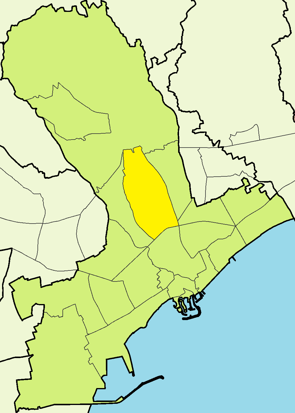 Apostoloi Petros kai Pavlos in Limassol Municipality